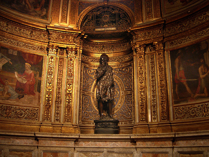 Chapel of Saint John the Baptist, Siena Cathedral. Sculpture by Donatello